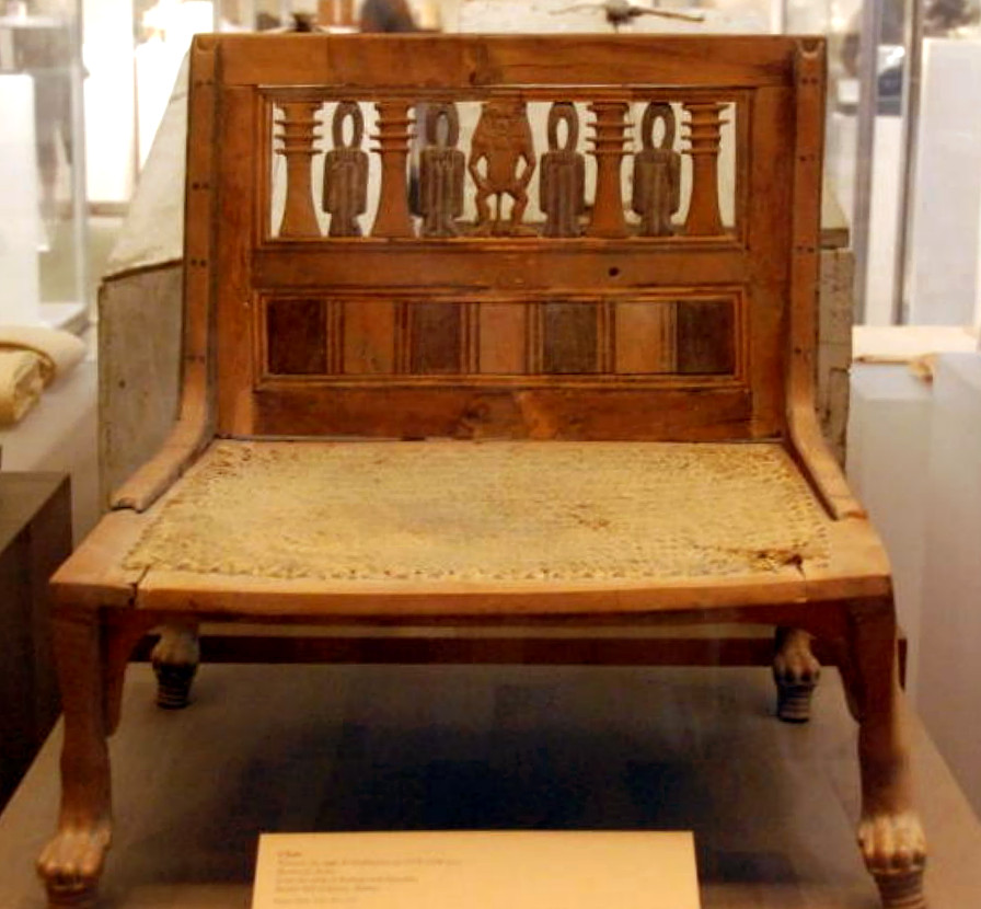 An ebony and boxwood chair from the tomb of Ramose and Hatnofer, the parents of the prominent 18th dynasty court official Senenmut. Ramose and Hatnofer's tomb was discovered intact by archaeologists at Sheikh Abd el-Qurna. The object is now displayed at the Metropolitan Museum of Art, New York.